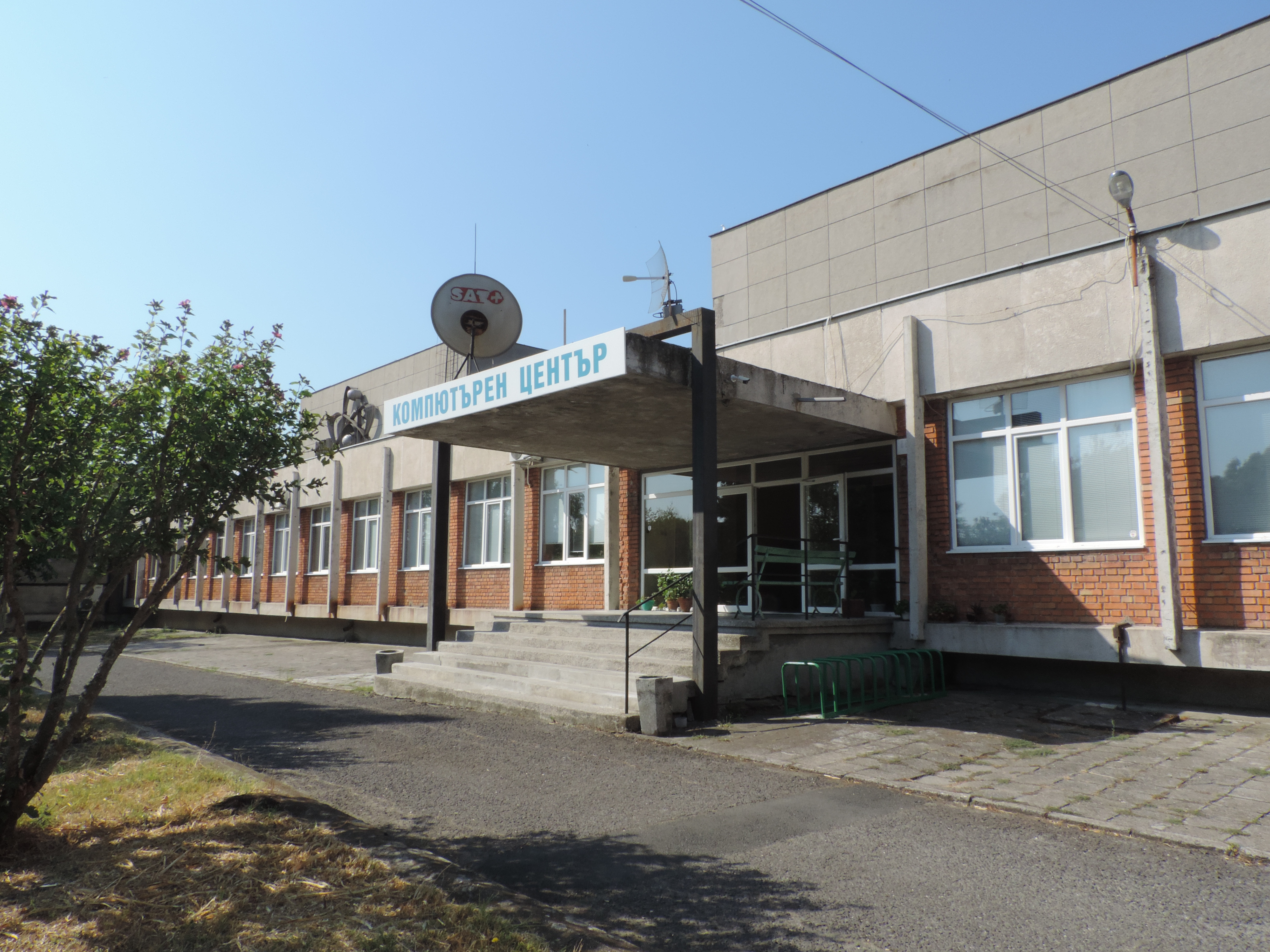 "Professor Asen Zlatarov" University, Burgas. Bulgaria